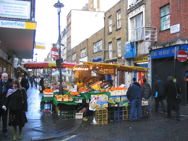 Berwick Street Market, Soho.